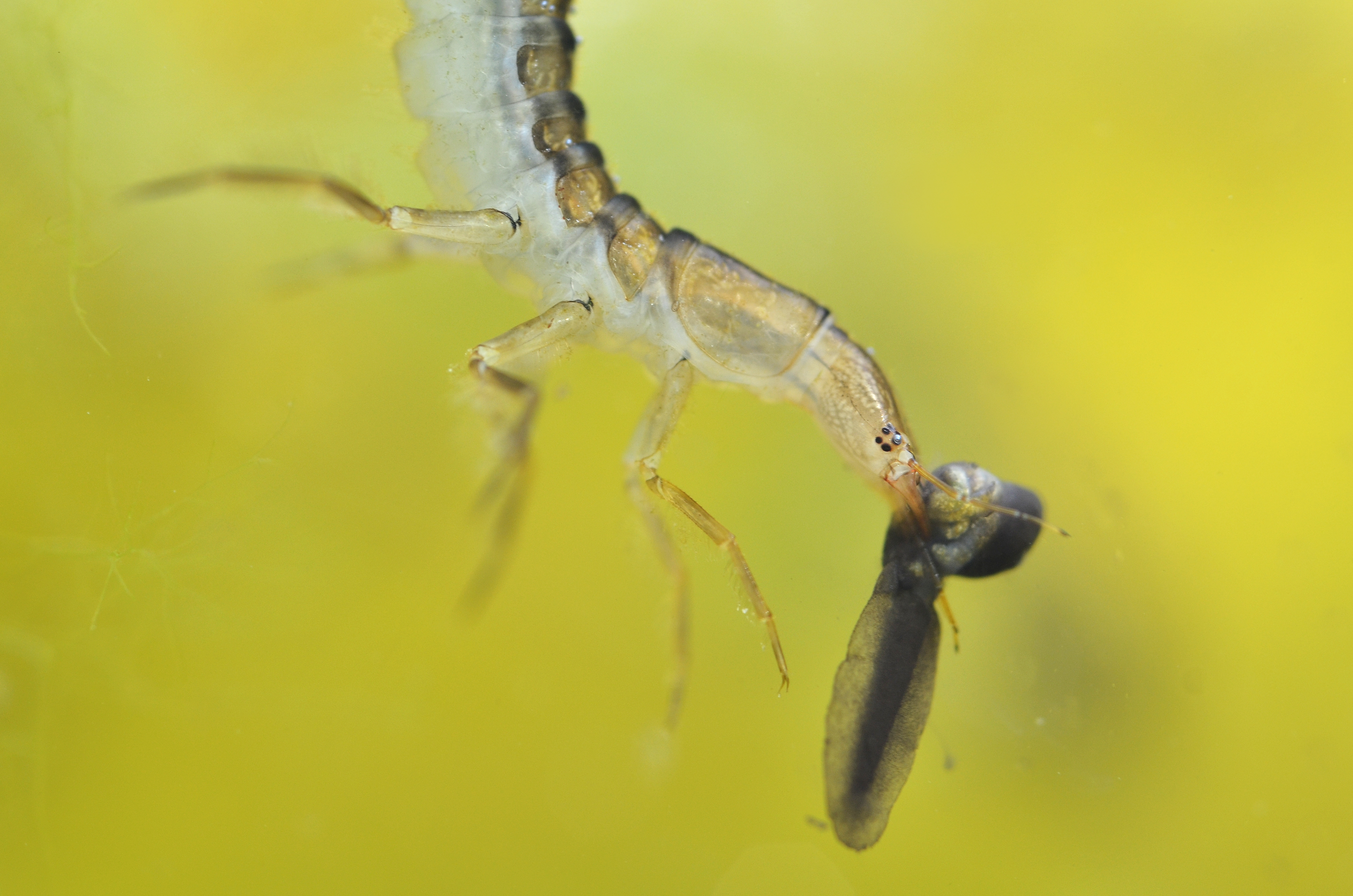 Photographed in natural conditions trough a thick pane (pond with a "window"). Hombourg (Bosc), Belgium.